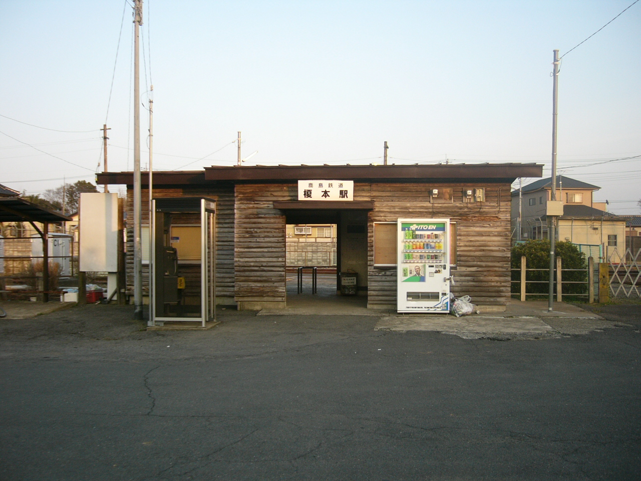 Enokimoto Station